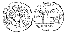 Coin with Numa Pompilius, the legendary second King of Rome, and Ancus Marcius, fourth King of Rome, supposed to be Numa Pompilius's grandson, on the obverse. The coin reads NVMAE. POMPILI. ANCI. MARCI. The reverse shows Victory upon a pillar and a ship below a moon.